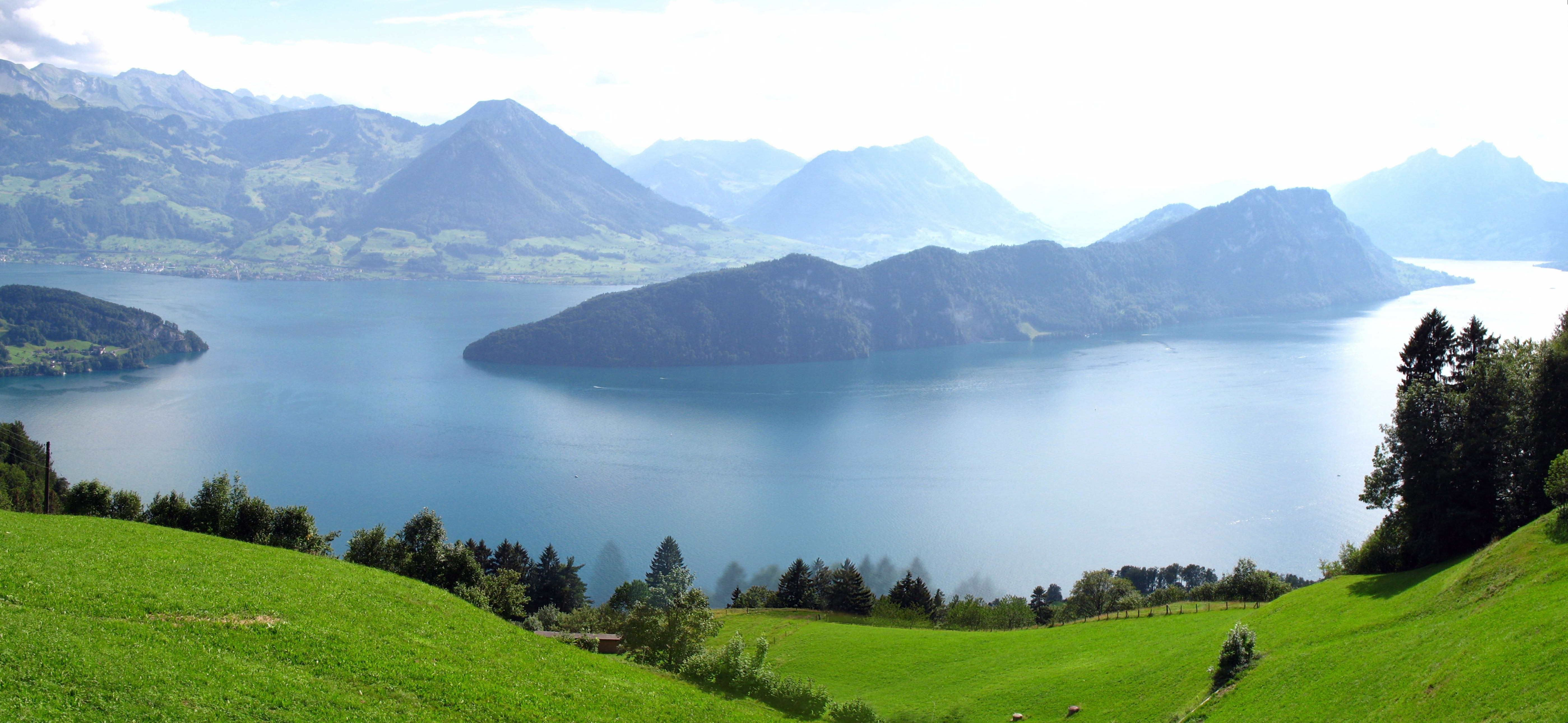 Lake Lucerne viewed from the Rigi railway, Vitznau, Switzerland